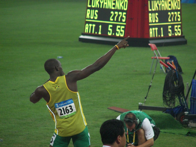 Usain Bolt, just before he breaks the 200 m world record.